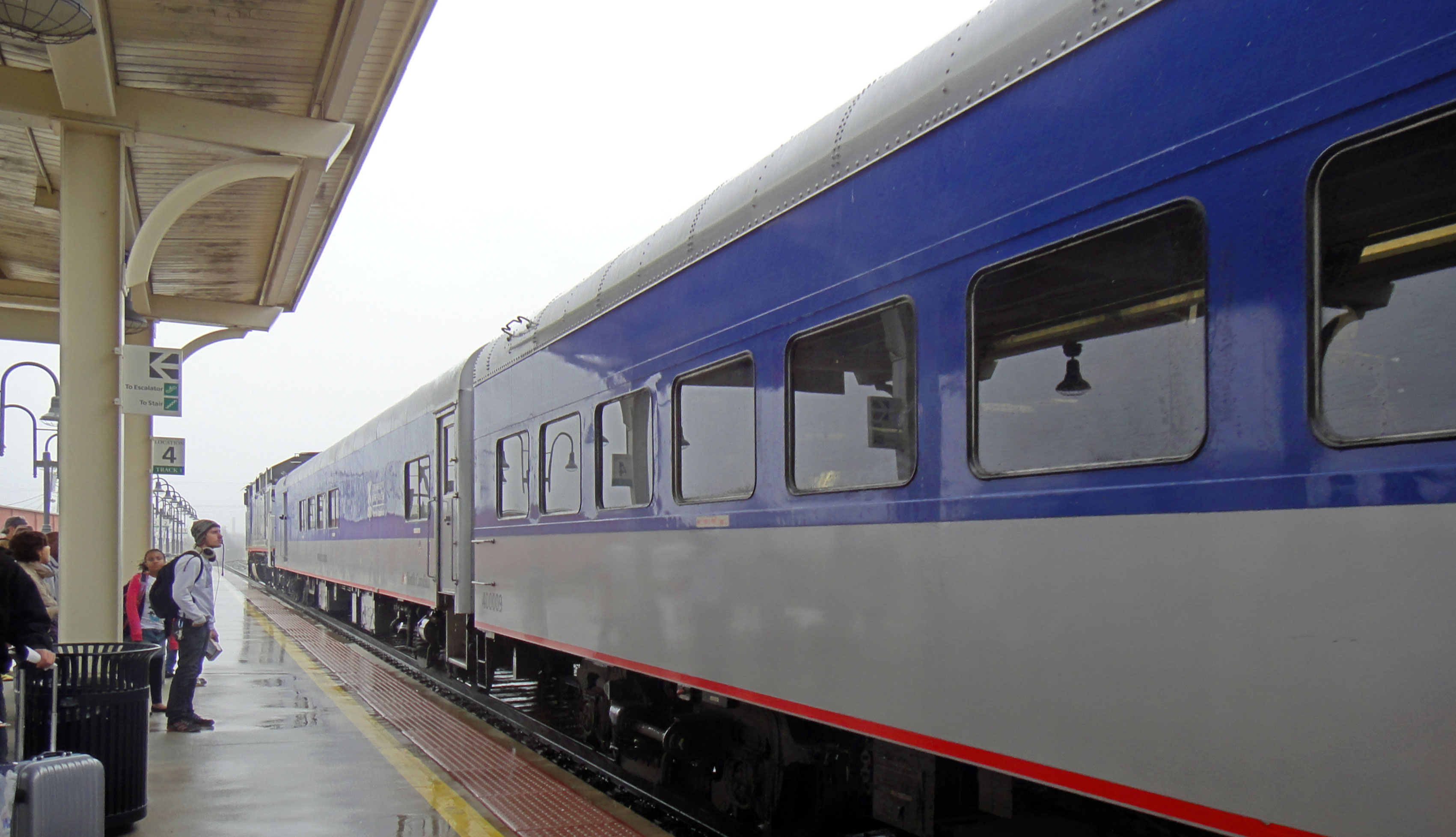 North Carolina has refurbished old coaches and engines for use on the Piedmont trains. This is a midday train at Greensboro station.